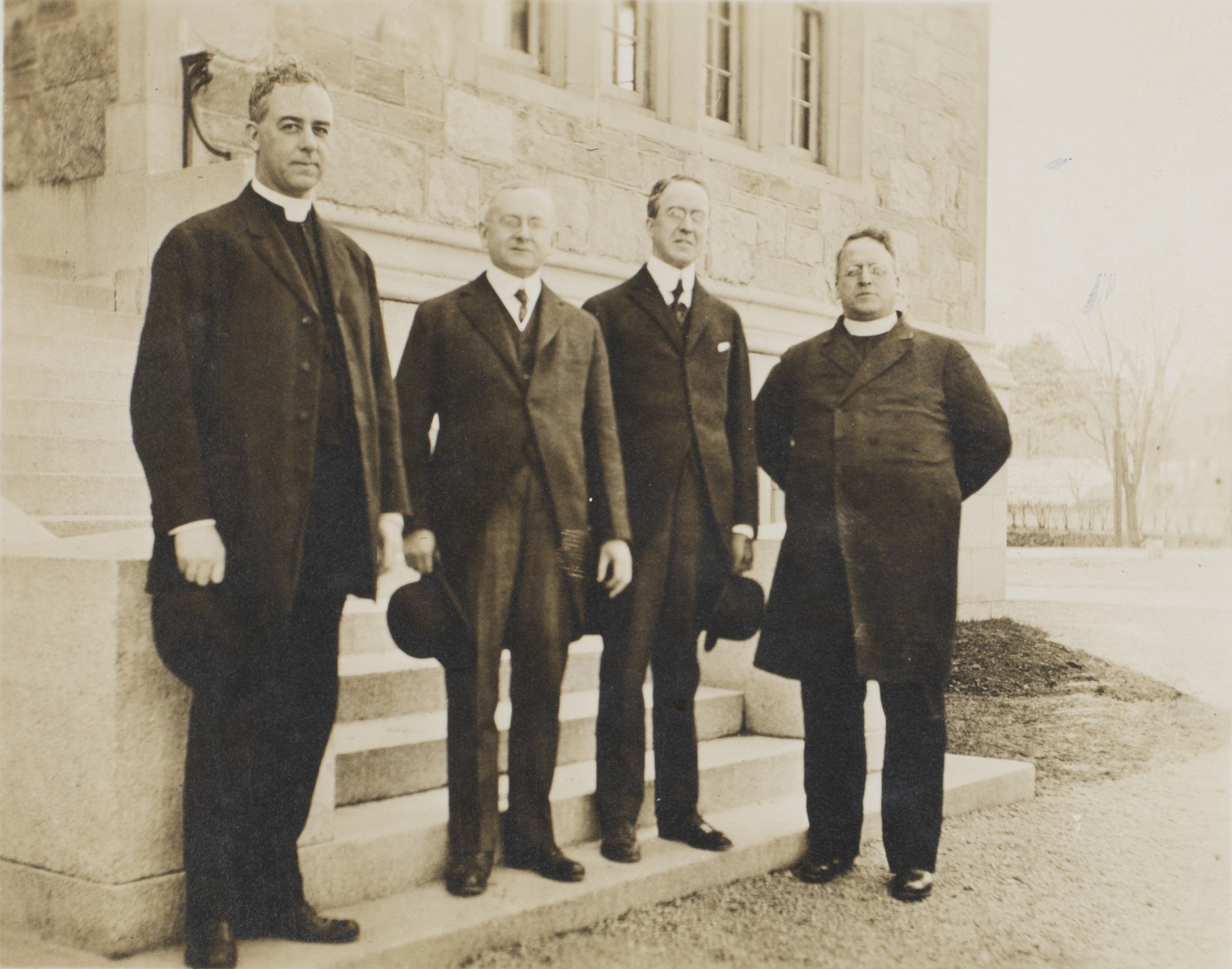 Photograph at Boston College. Left to right: Rev. Michael Jessup, S.J., Charles Mooney, Dr. Fred Lyons, Rev. Charles W. Lyons, S.J.